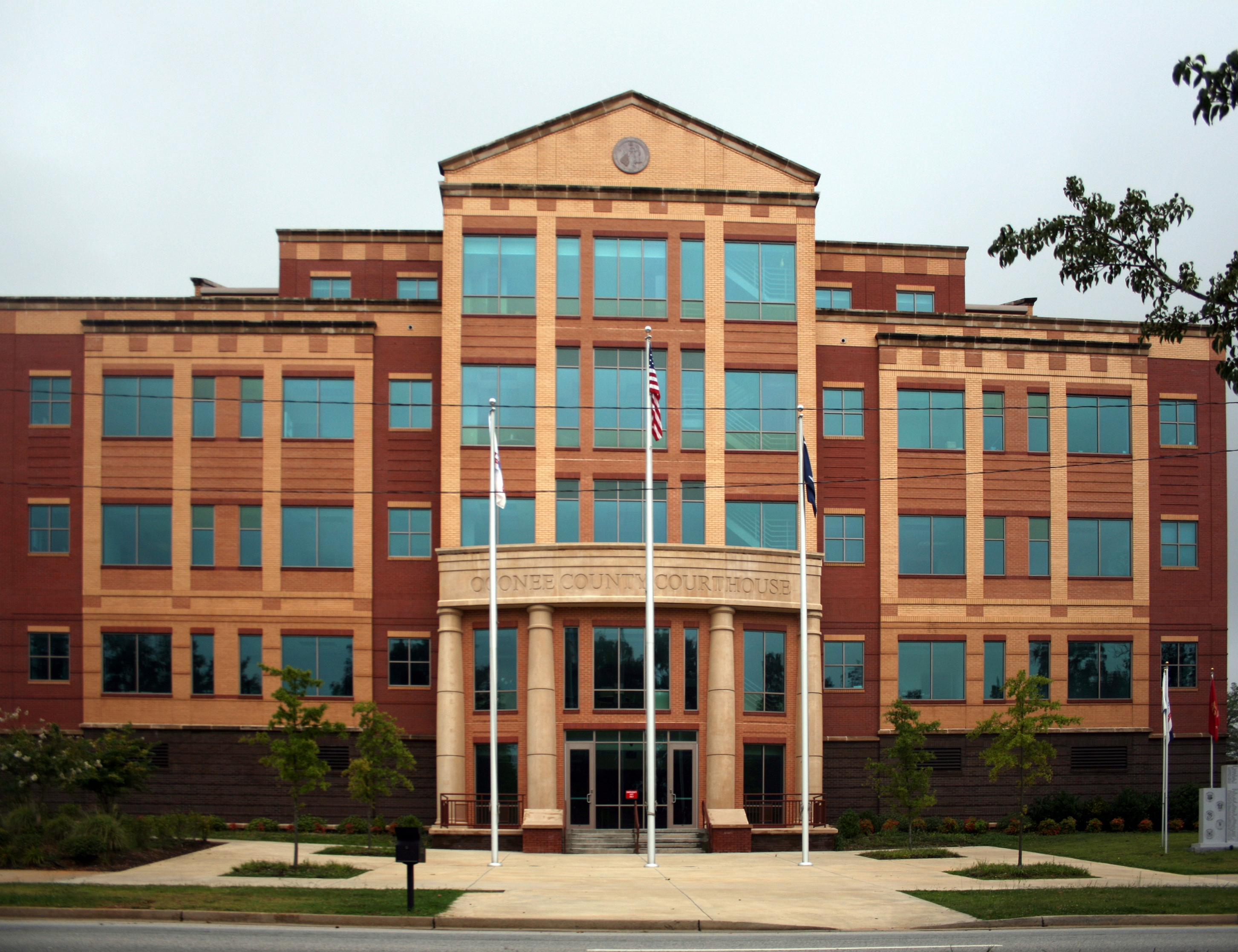 Oconee County Courthouse, photographed in July 2007